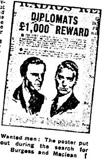 pg. 47 of Philby, Bugress & MacLean declassified FBI file under the Freedom of Information Act in the public domain